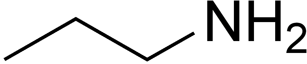 chemical structure of propylamine